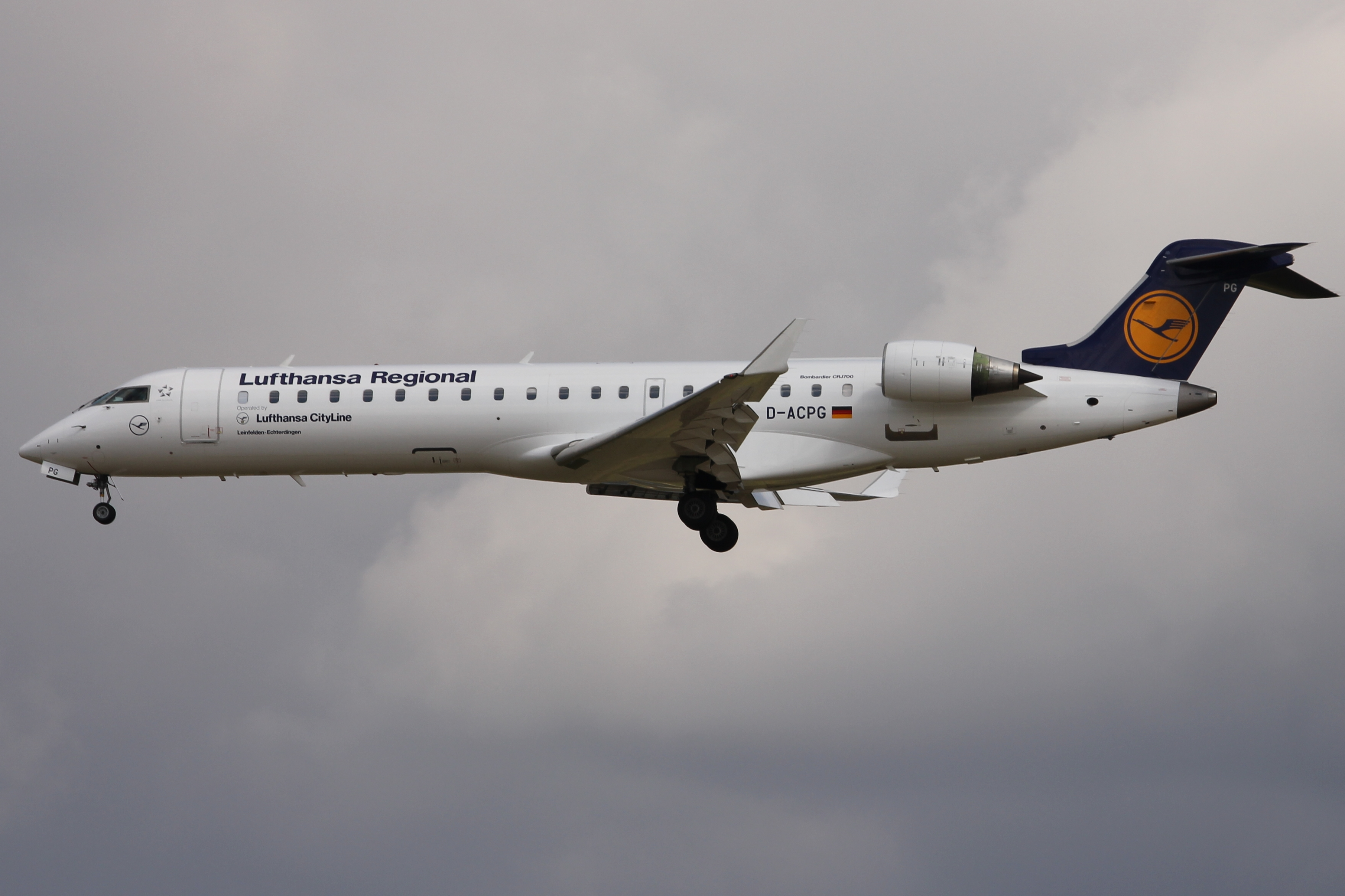 Lufthansa Regio CRJ700 approaches Frankfurt intl. Airport.